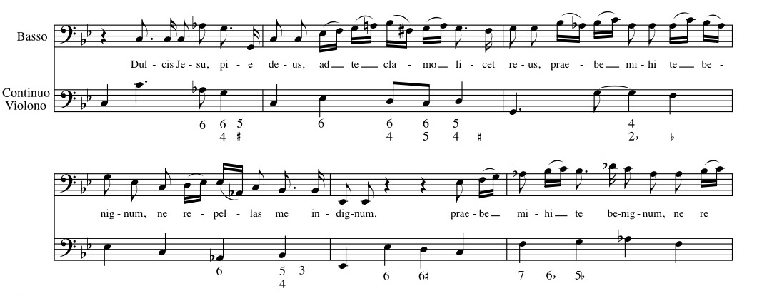 Description: Bass solo from Ad pedes, the first part of Dieterich Buxtehude's oratorio Membra Jesu Nostri (cycle of seven cantatas) Note: Original file created on Finale 2006.r3 for Macintosh by Trisdee na Patalung